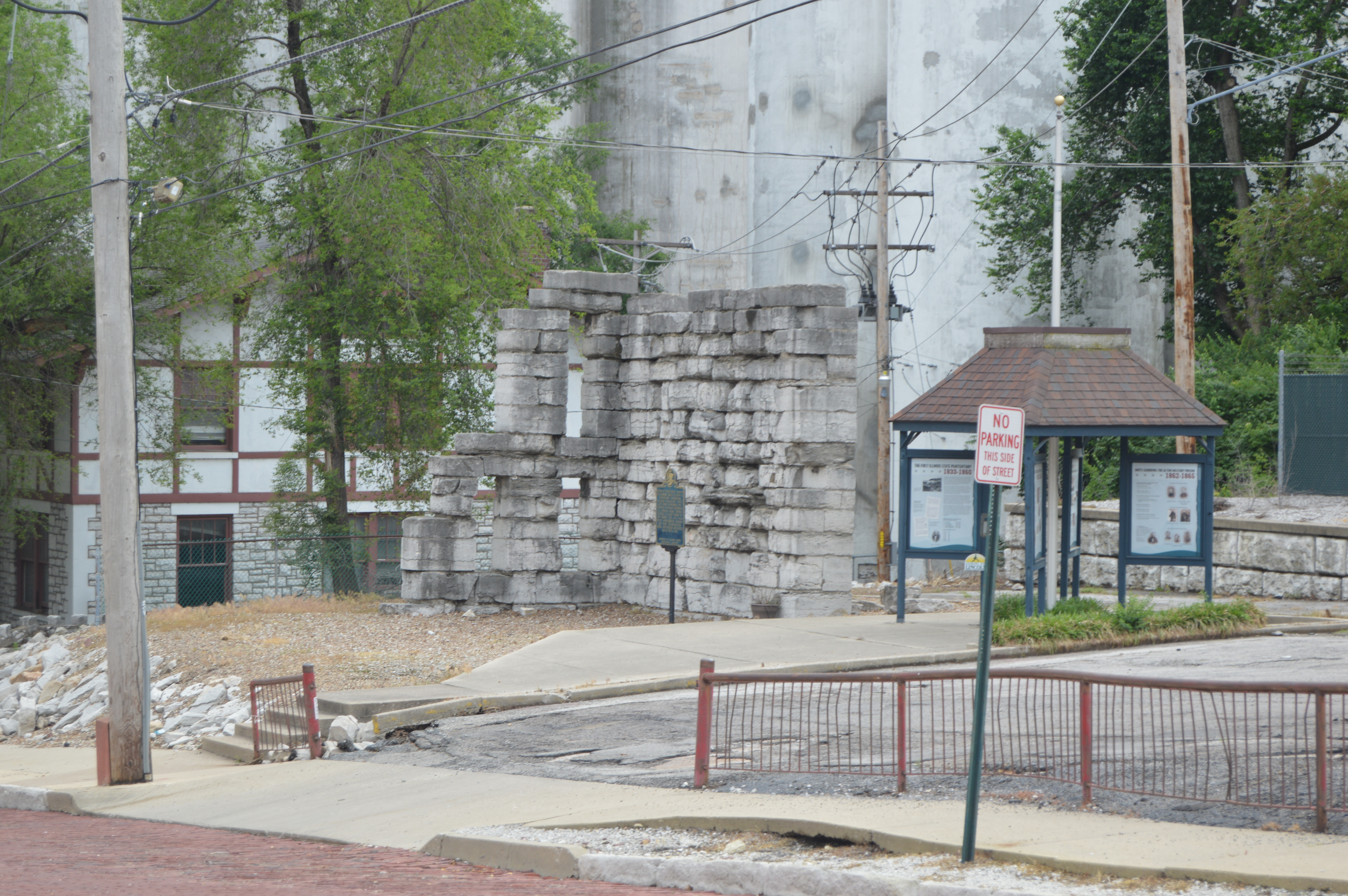 Overview of the Alton Military Prison Site, located on the western side of William Street north of Broadway in Alton, Illinois, United States. Built in 1833 as a state prison and used as a prison-of-war camp during the Civil War, it is listed on the National Register of Historic Places.